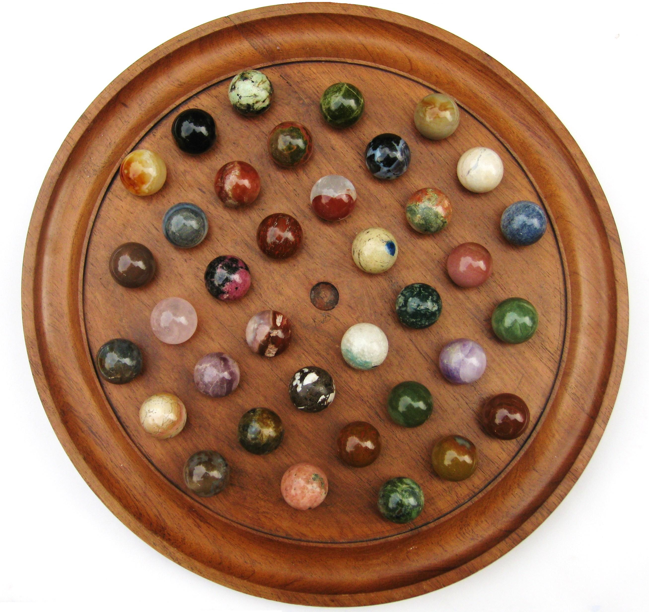 Solitaire board, French style, "peg solitaire" with stone balls; looks like the ones made in Madagascar